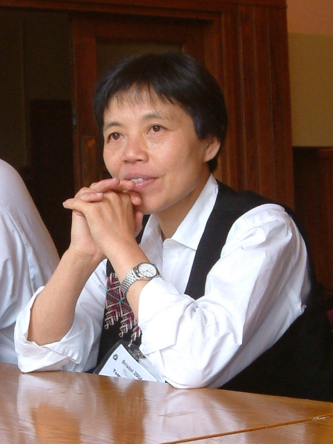 Tomoko Fuse attending the British Origami Society Bristol Convension 2004. Taken 10 September 2004